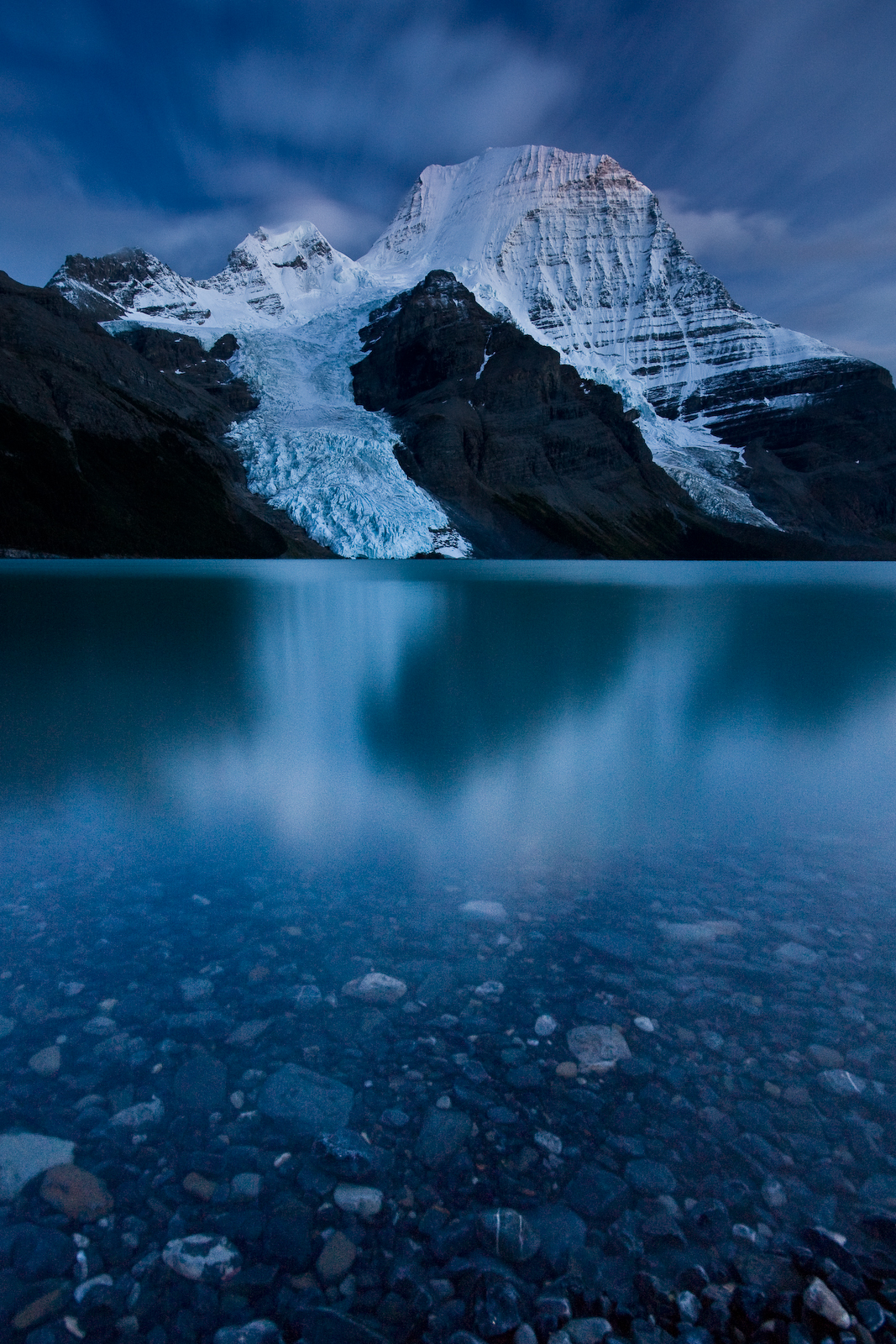 Mount Robson's Emperor Face at twilight. Berg Lake, Mount Robson Provincial Park, B.C., Canada.